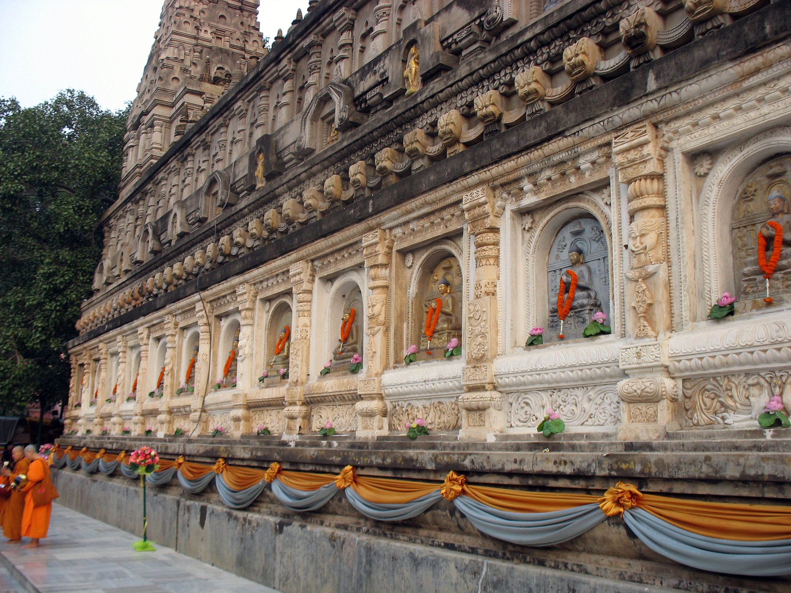 Mahabodhi temple, Bodhgaya